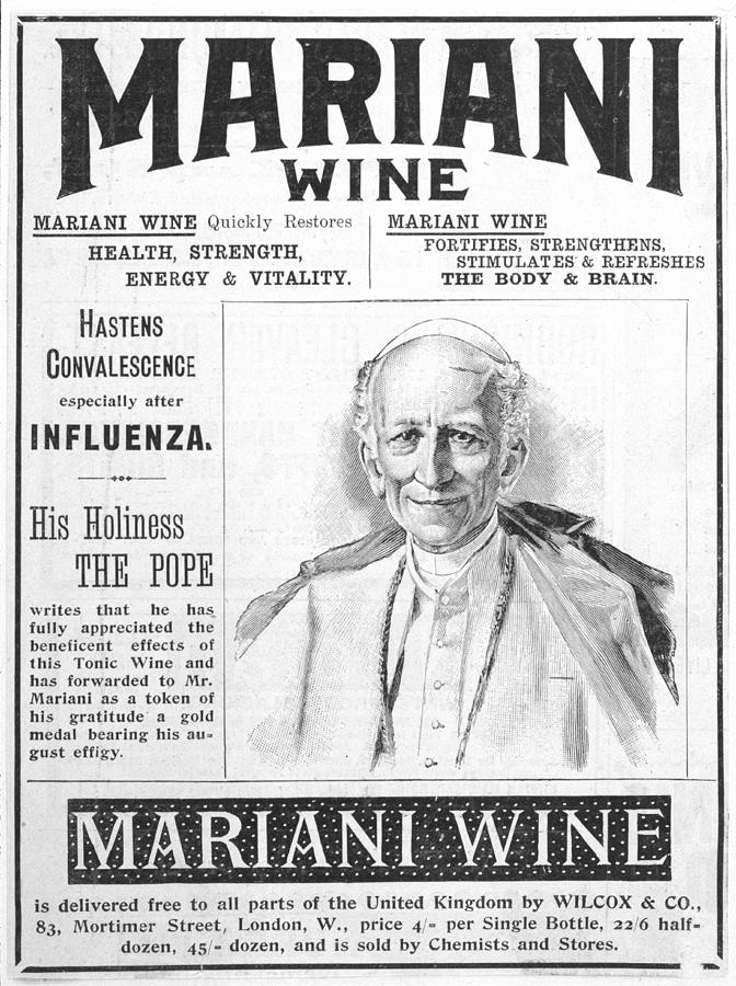 Advertisement of Vin Mariani with Pope Leo XIII The text of the poster reads: MARIANI WINE MARIANI WINE: quickly Restores HEALTH, STRENGTH, ENERGY & VITALITY. MARIANI WINE: FORTIFIES, STRENGTHENS, STIMULATES & REFRESHES THE BODY & BRAIN. Hastens Convalescence, especially after Influenza. His Holiness THE POPE writes that he has fully appreciated the beneficient effects of this Tonic Wine and has forwarded to Mr. Mariani as a token of his gratitude a gold medal bearing his august effigy. MARIANI WINE: To be delivered free to all parts of the United Kingdom by WILLCOX & CO. [address], and be sold by Chemists and Stores.